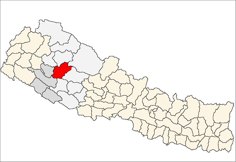 FrenchCarte de localisation dudistrict de Jajarkot(wp-FR),au Népal (wp-FR).EnglishLocation map ofJajarkot District(wp-EN),in Nepal (wp-EN).